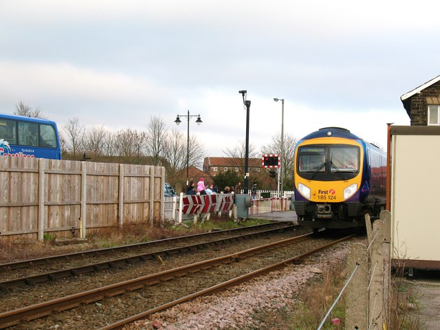 Approaching Malton Station A Scarborough to York train crosses the level crossing that separates Norton and Malton.